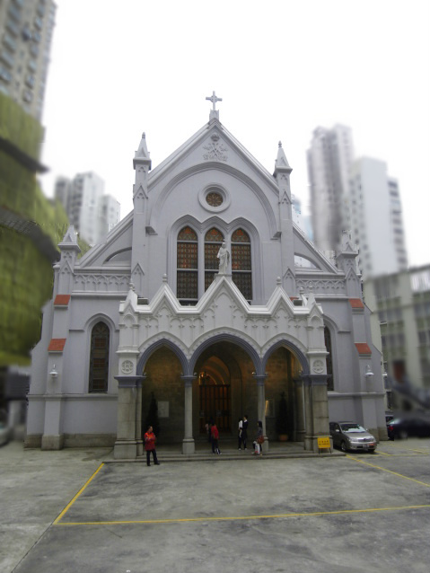 The Hong Kong Catholic Catheral